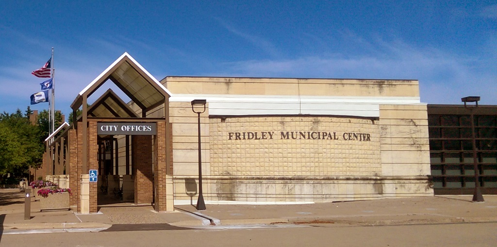 City Hall, East entrance, Fridley, Minnesota, USA.